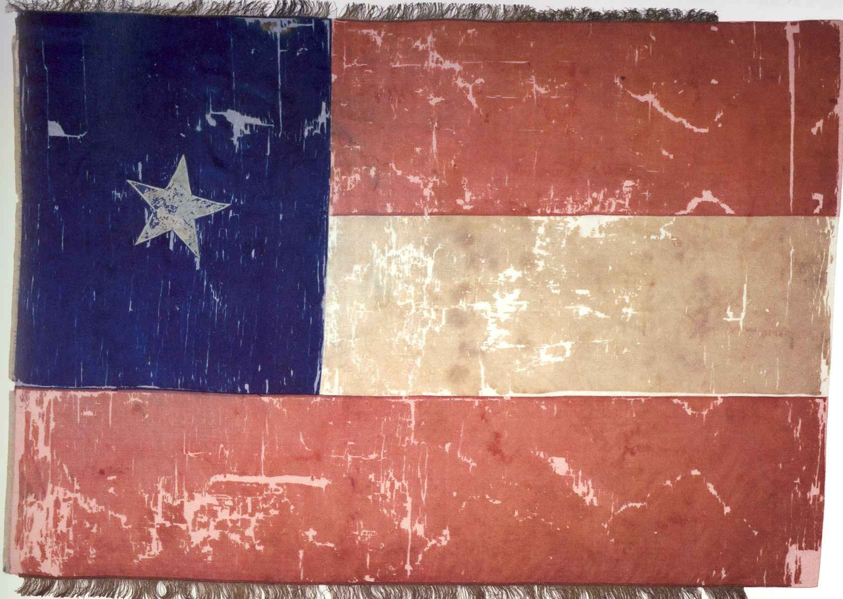 Regimental flag of the Fifth Texas Infantry, Hood's Texas Brigade, Texas State Library and Archives